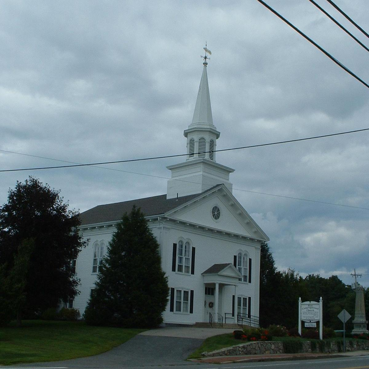 The First Congregational Church of Hanover, Massachusetts. This is the third building on the site, erected 1864.